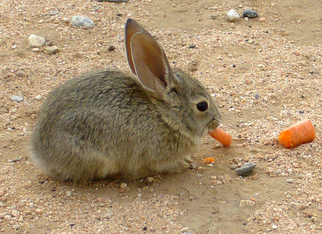 Eight week old desert cottontail (Sylvilagus audubonii) eating carrot